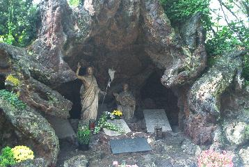 Mariengrotte Binsfeld bei Nörvenich own work papa1234 2002-08-01